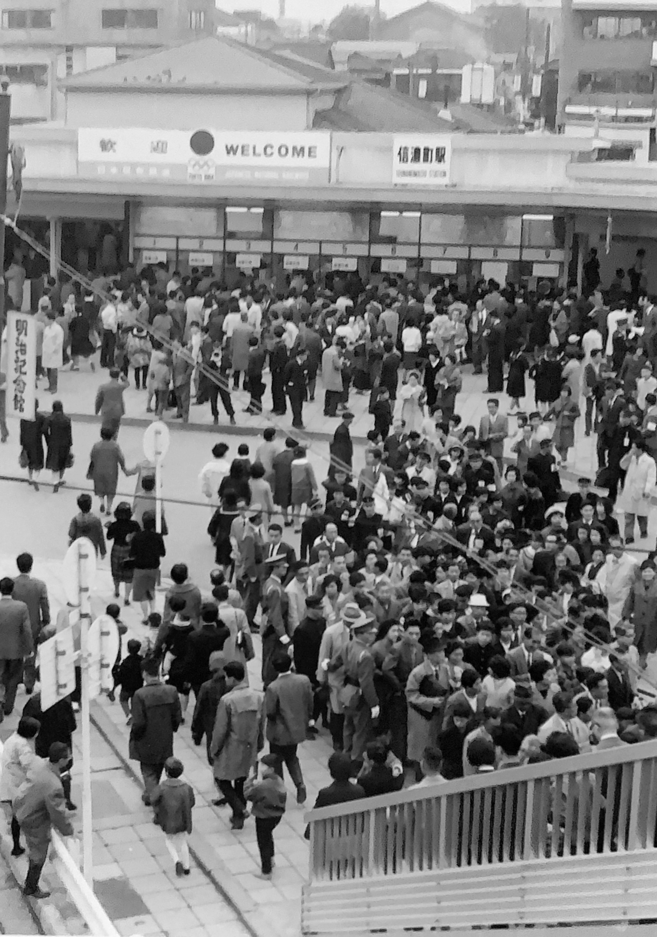 Shinanomachi Station (1964)